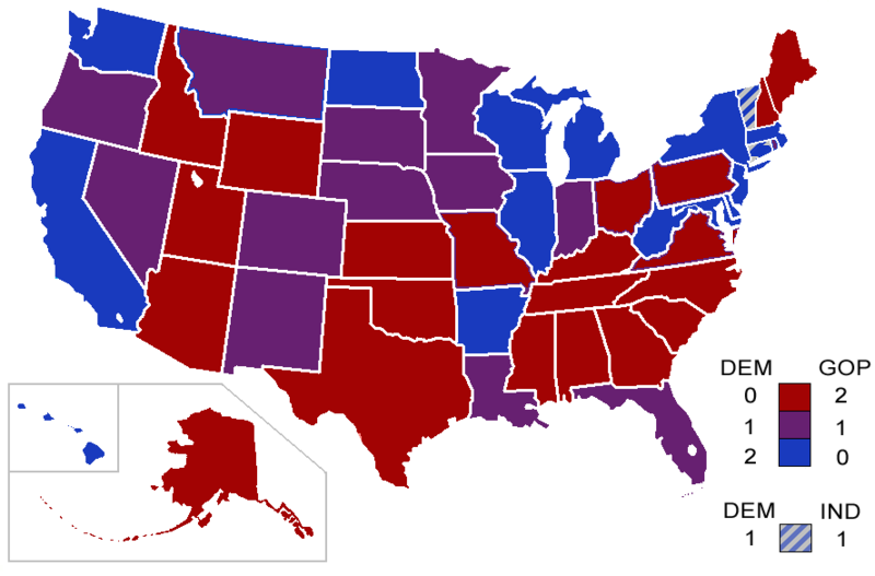 Using File:110th_US_Congress_Senate3.PNG[dead link] (which too is a Wikipedia picture, and can be modified per the GNU license) as the "base" for this picture, I created a similar picture, only for the 109th Congress instead. This map shows the senatorial composition by political party and by state, at the start of the 109th Congress.